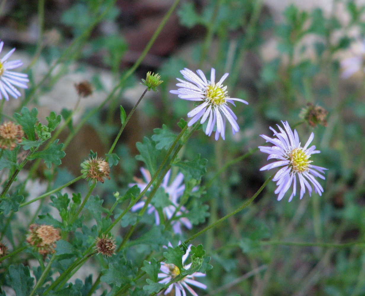 Calotis cuneifolia (cultivated, labelled) Maranoa Gardens, Balwyn, Victoria, Australia